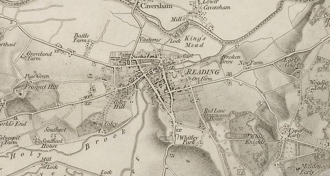 map of reading from 1830 ordnance survey 1:63300 SERIES